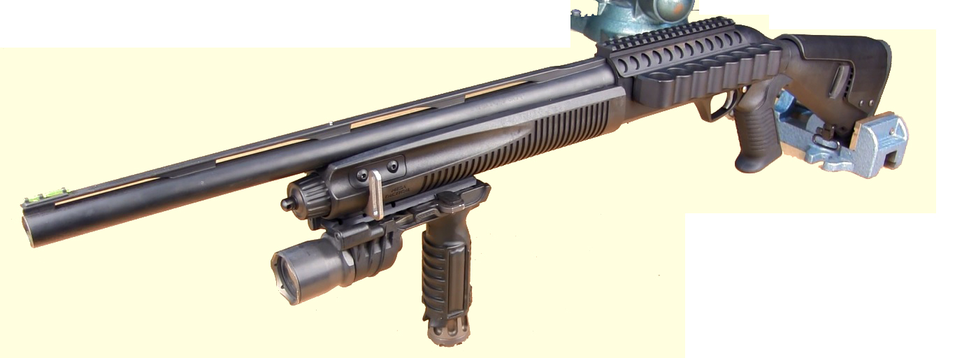 First article injection molded part.